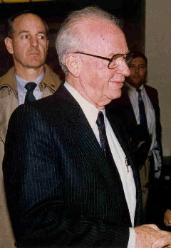 Congressman Terry Everett with Israeli Prime Minister Yitzak Rabin on June 6, 1993